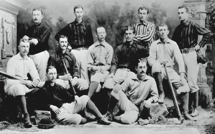 1882 Cincinnati Red Stockings baseball teamBack row, left to right: Harry McCormick, Phil Powers, Dan Stearns, Bid McPheeMiddle row, left to right: Hick Carpenter, Pop Snyder, Will White, Chick Fulmer, Joe SommerFront row, left to right: Jimmy Macullar, Harry Wheeler